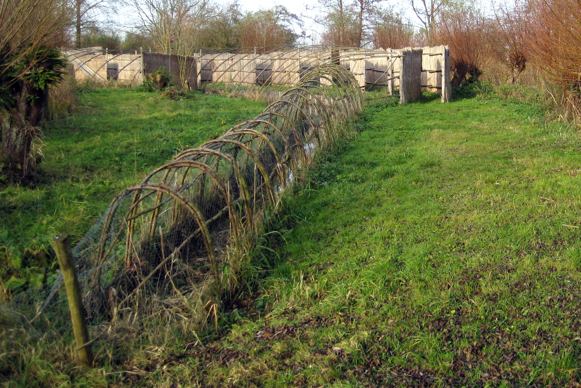 Duck decoy in nature reserve 't Broek near Waardenburg, the Netherlands. In the foreground is the end of the tunnel.